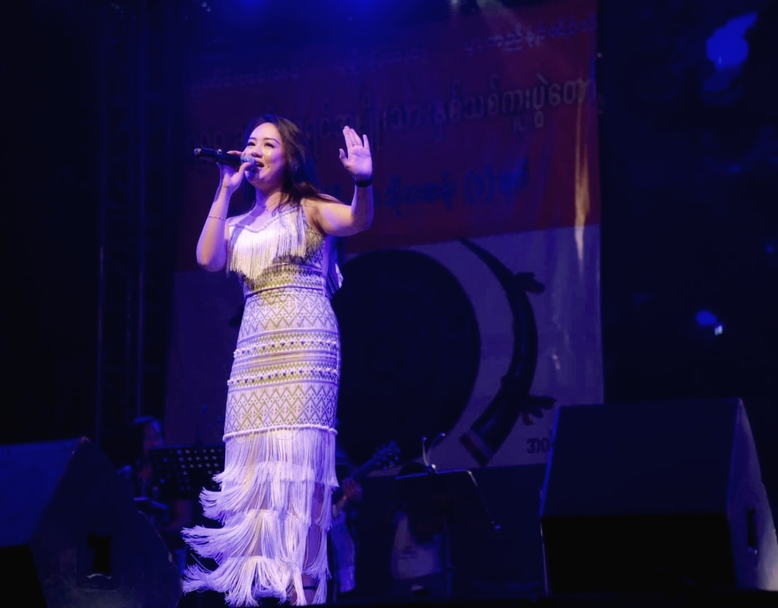 noable Burmese singer Billy La Min Aye